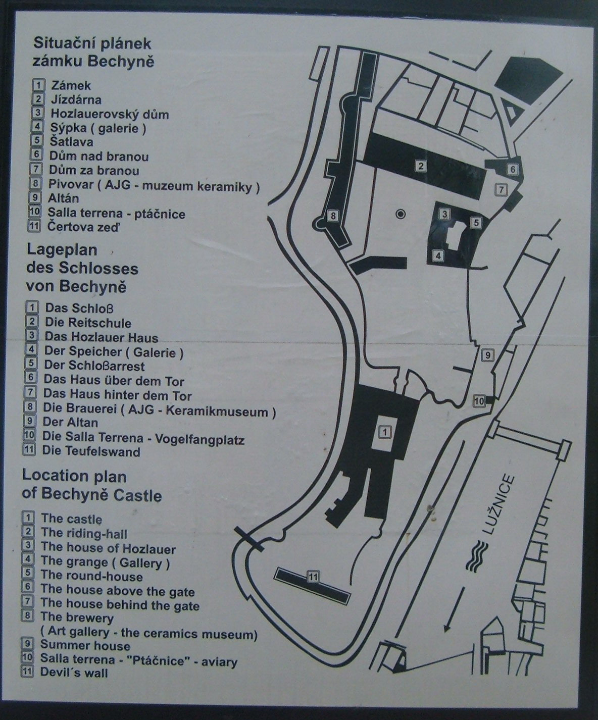 own work